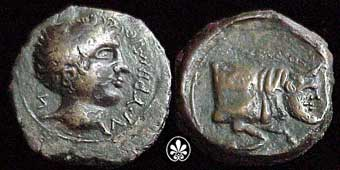 Sicily, Agyrion (Agira). Circa 344-336 BC. Æ 20mm (6.71 g). Youthful head of Herakles right ΑΓΥΡΙΝΑΙΟΝ Man-headed bull right. ΠΑΛΑΓΚΑΙΟΣ Calciati III pg.122